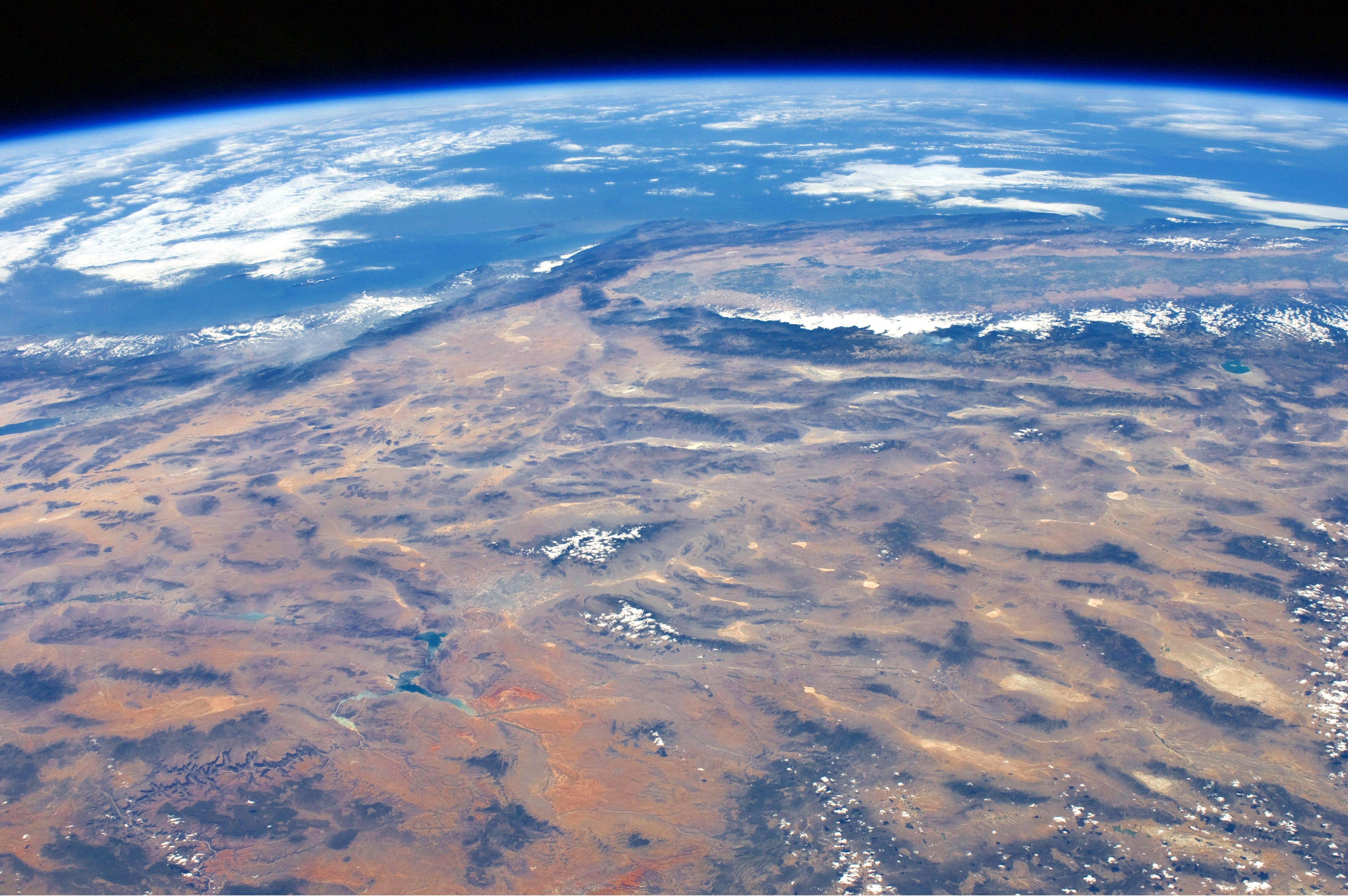 This panoramic view of the south-western United States and Pacific Ocean was taken by an astronaut looking out at an angle from the International Space Station (ISS). The image includes parts of Arizona, Nevada, Utah, and California, as well the coastline of Baja California, Mexico (image centre left). The Las Vegas metropolitan area appears as a gray region adjacent to the Spring Mountains and Sheep Range (both covered by white clouds). The Grand Canyon, located on the Colorado Plateau in Arizona, is visible to the east of Las Vegas, with the blue waters of Lake Mead in between. The image also includes the Mojave Desert, stretching north from the Salton Sea to the Sierra Nevada mountain range. The Sierra Nevada is roughly 640 km long (north-south) and forms the boundary between the Central Valley of California and the adjacent Basin and Range physiographic province. The Basin and Range is so called because of the pattern of long linear valleys separated by parallel mountain ranges. The landscape was formed by extension and thinning of the Earth’s crust.